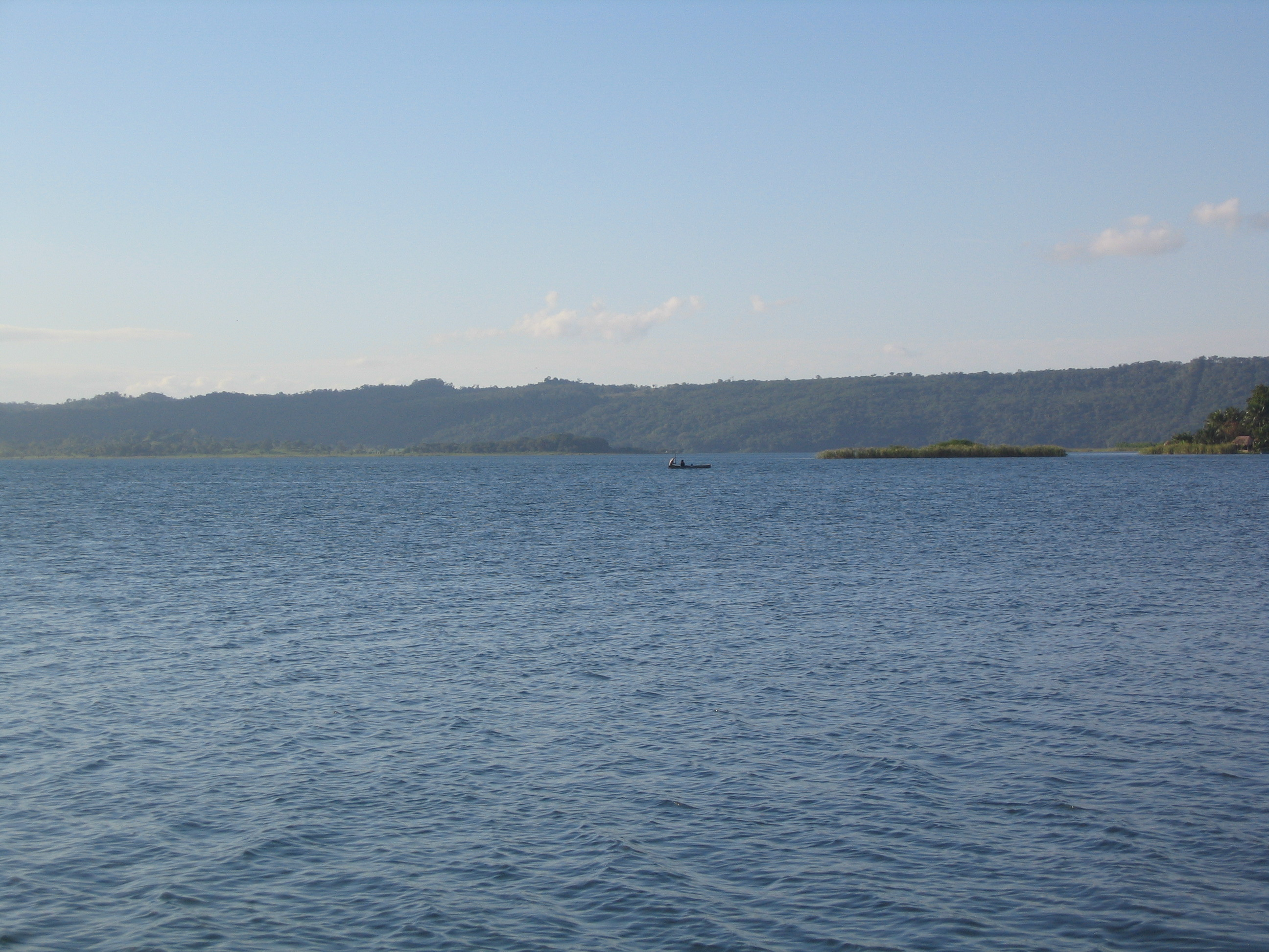 Laog El Peten, Guatemala own Work Dez 2007